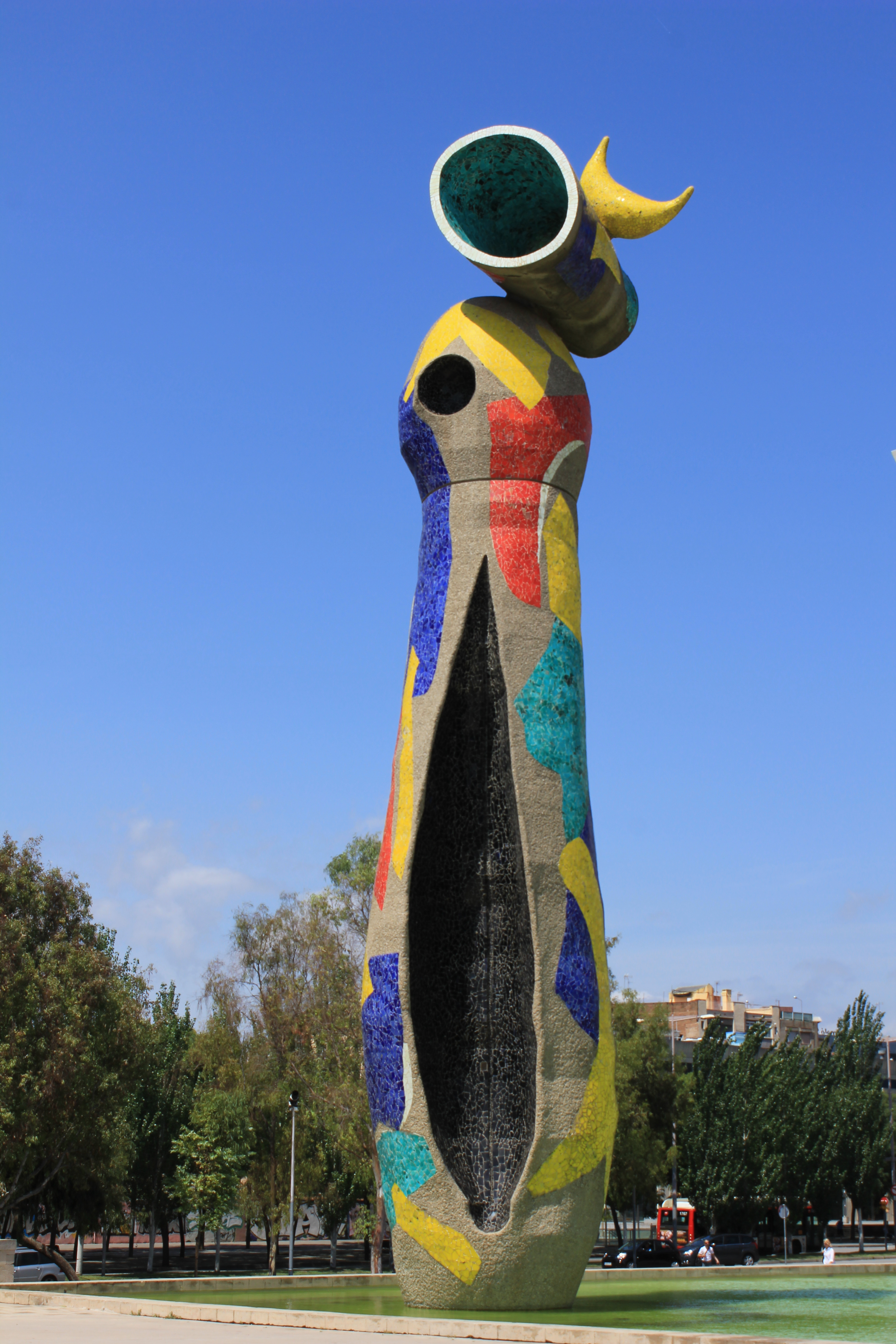 Dona i Ocell ("Woman and Bird") is a 22-metre high sculpture by Joan Miró located in the Parc Joan Miró in Barcelona, Catalonia.